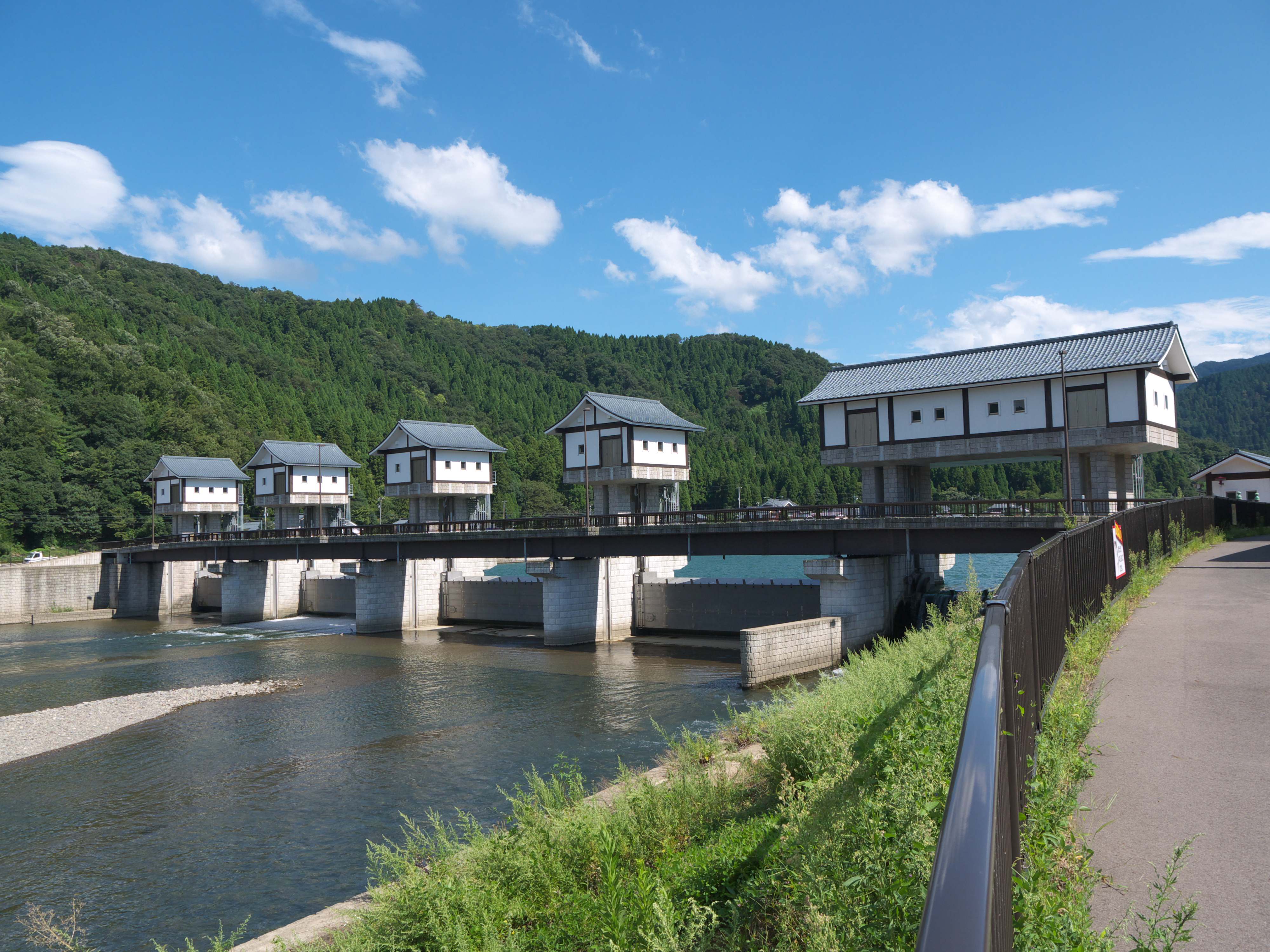 Asuwagawa Head Works.